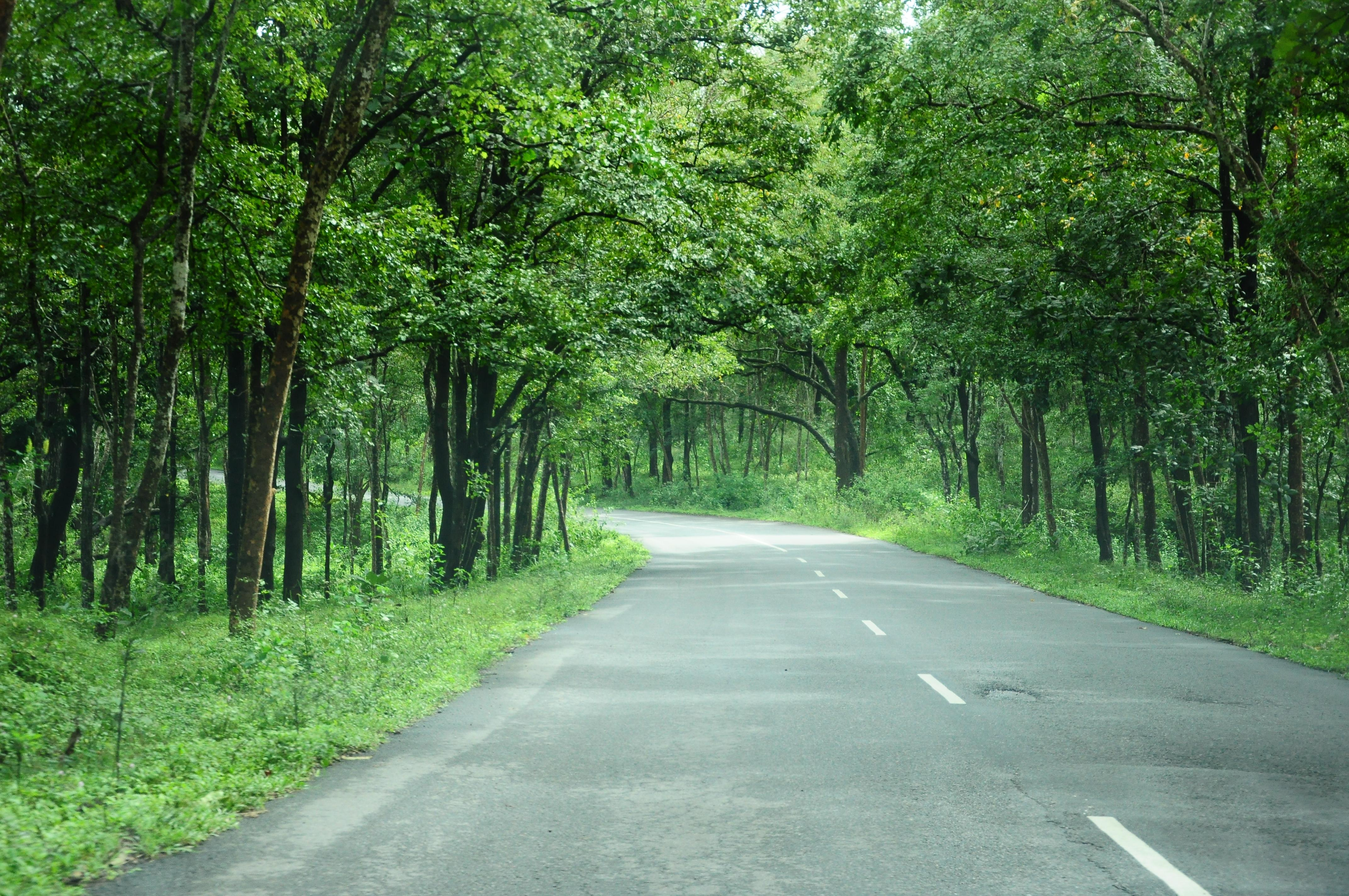 NH 212, now renumbered as National Highway 766 and NH 181, through Bandipur forest in Western Ghats, Kerala